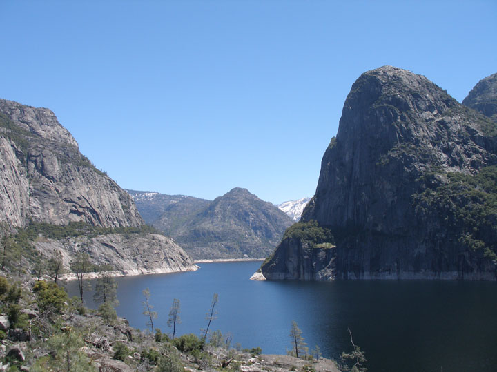 Taken by Andrew Thompson on May 24, 2005 from near the dam.